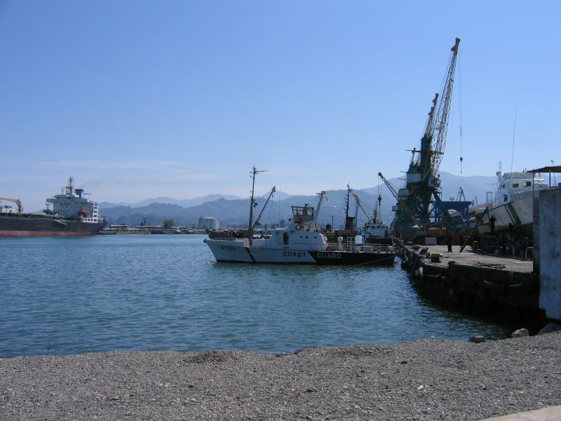 Projekt 1400-M «Grif-M» (NATO designition - Zhuk class) patrol boat P 104 in Batumi.